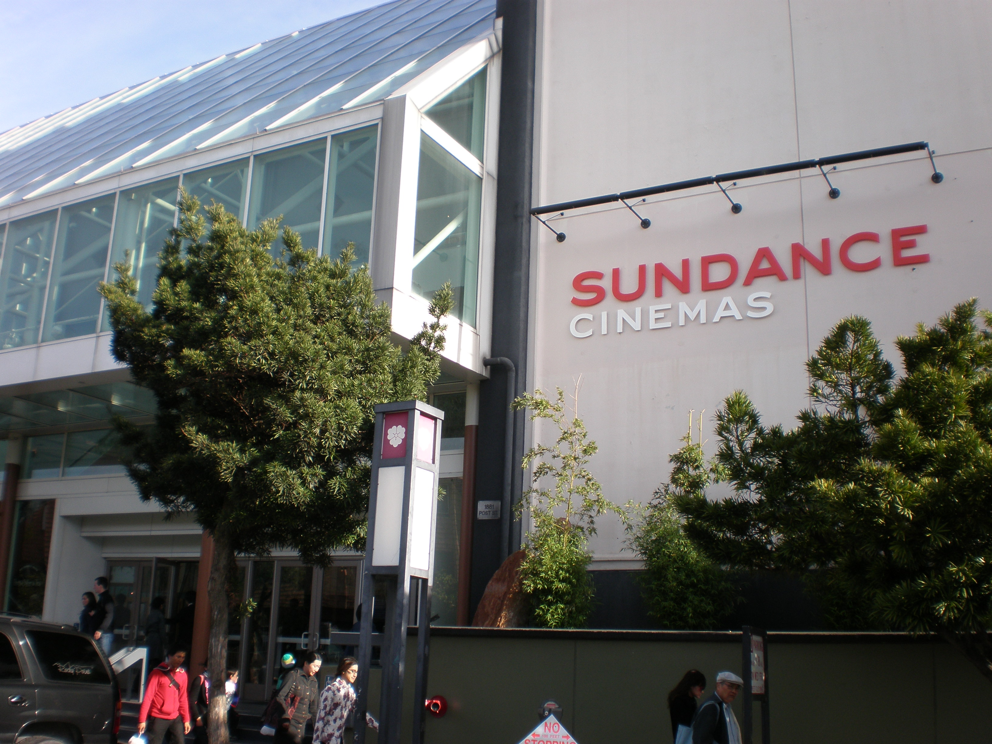 The Sundance Kabuki Cinemas at the Japan Center, Japantown, San Francisco.